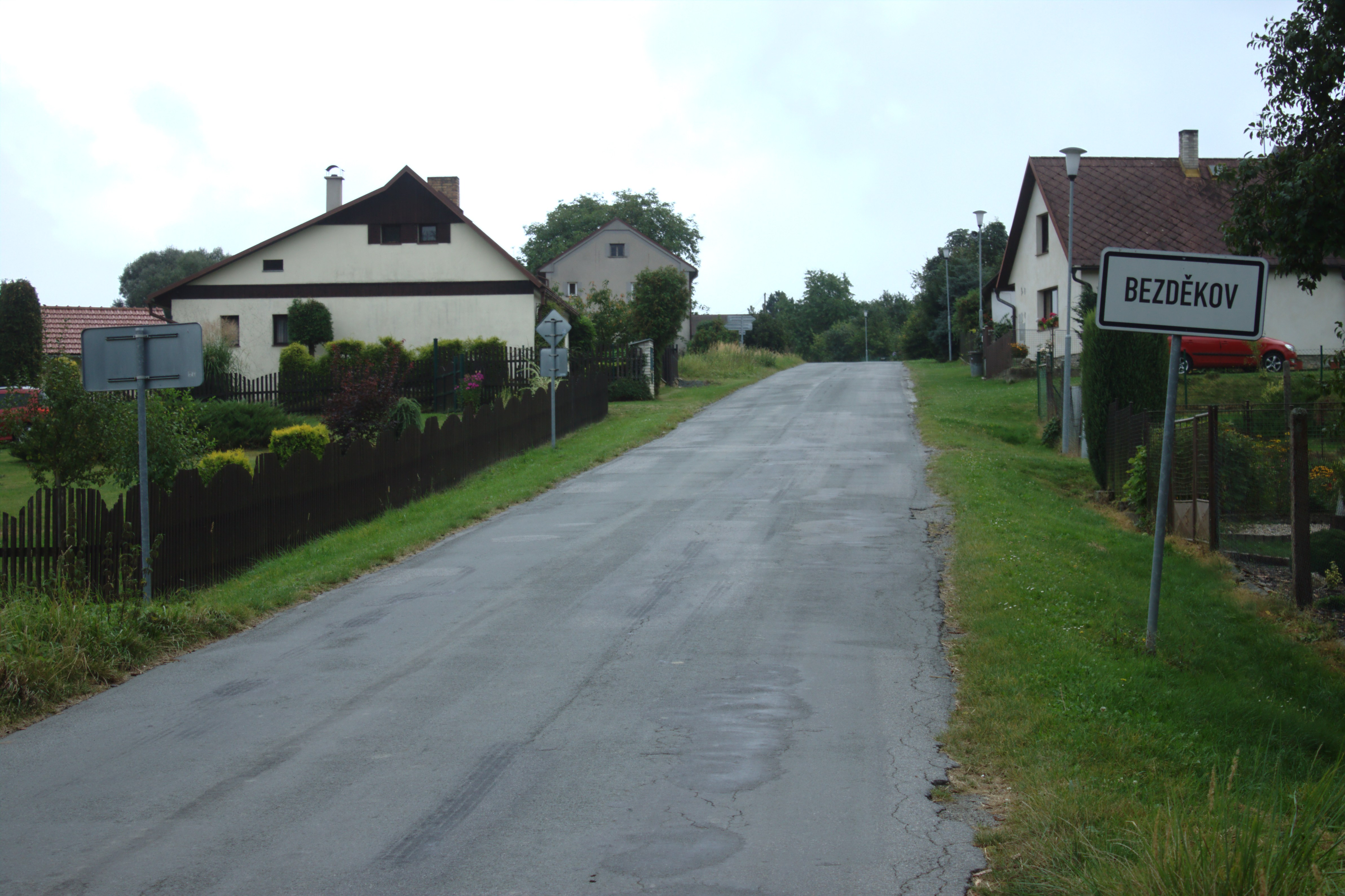 Main road in the village of Bezděkov, Vysočina Region, CZ